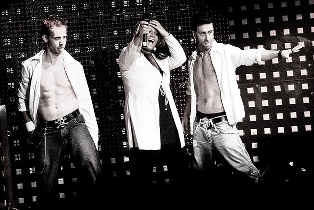 Groove Coverage at a club show in Beijing, China in 2007